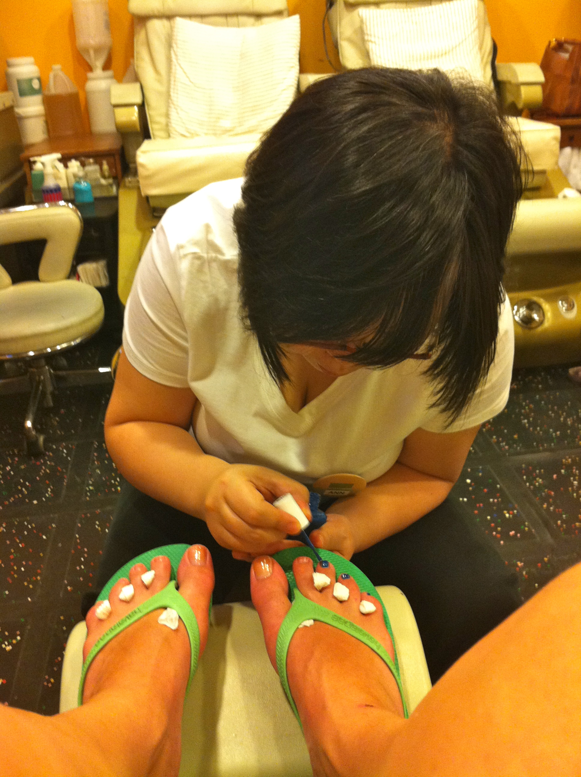 UWS. NYC. June, 2011.